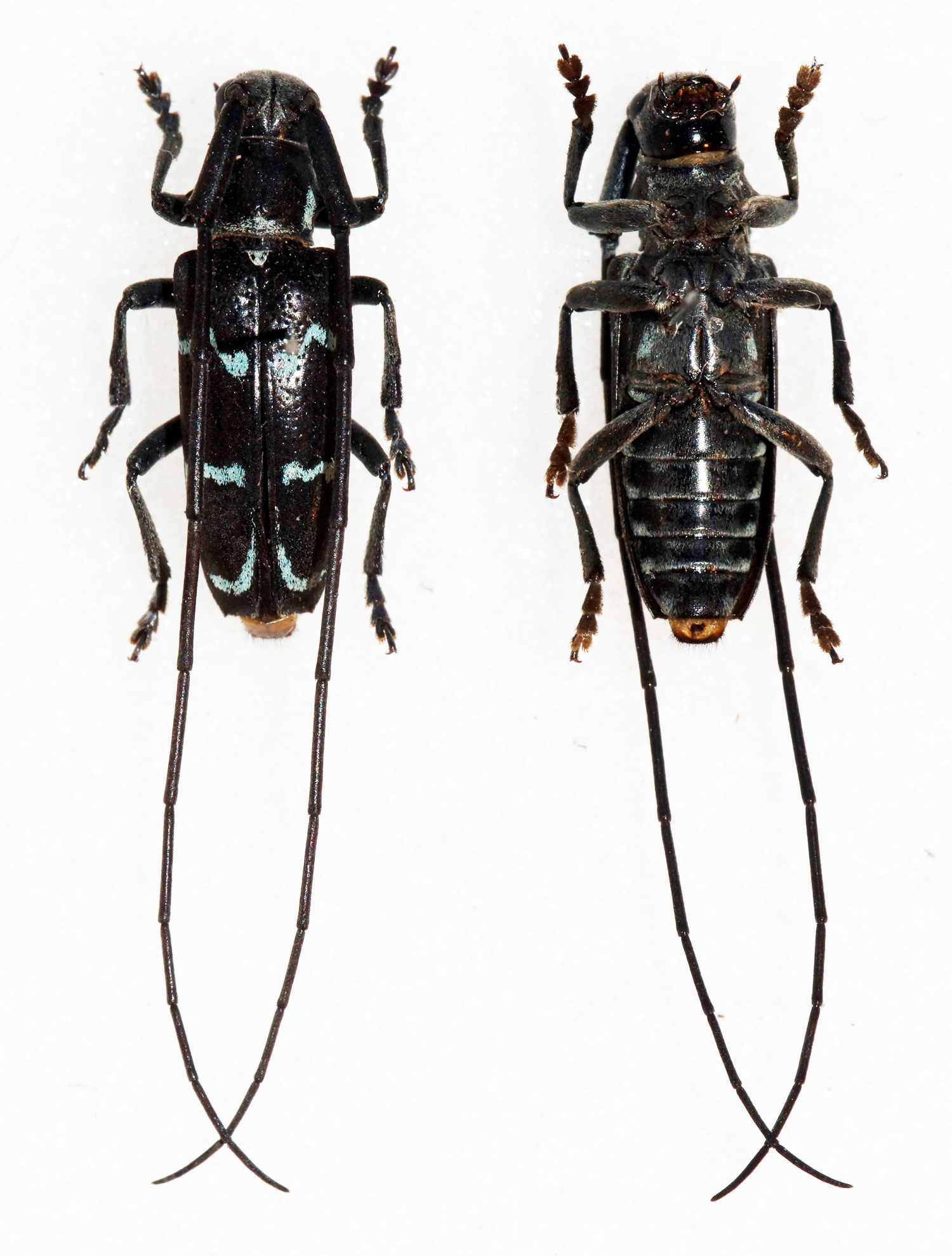 Cerambycidae